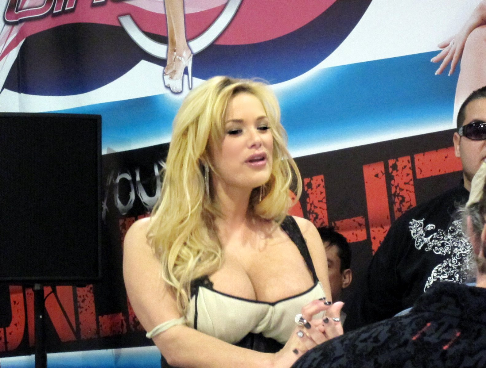 Blonde Bombshell Shyla Stylez Signing at AEE.